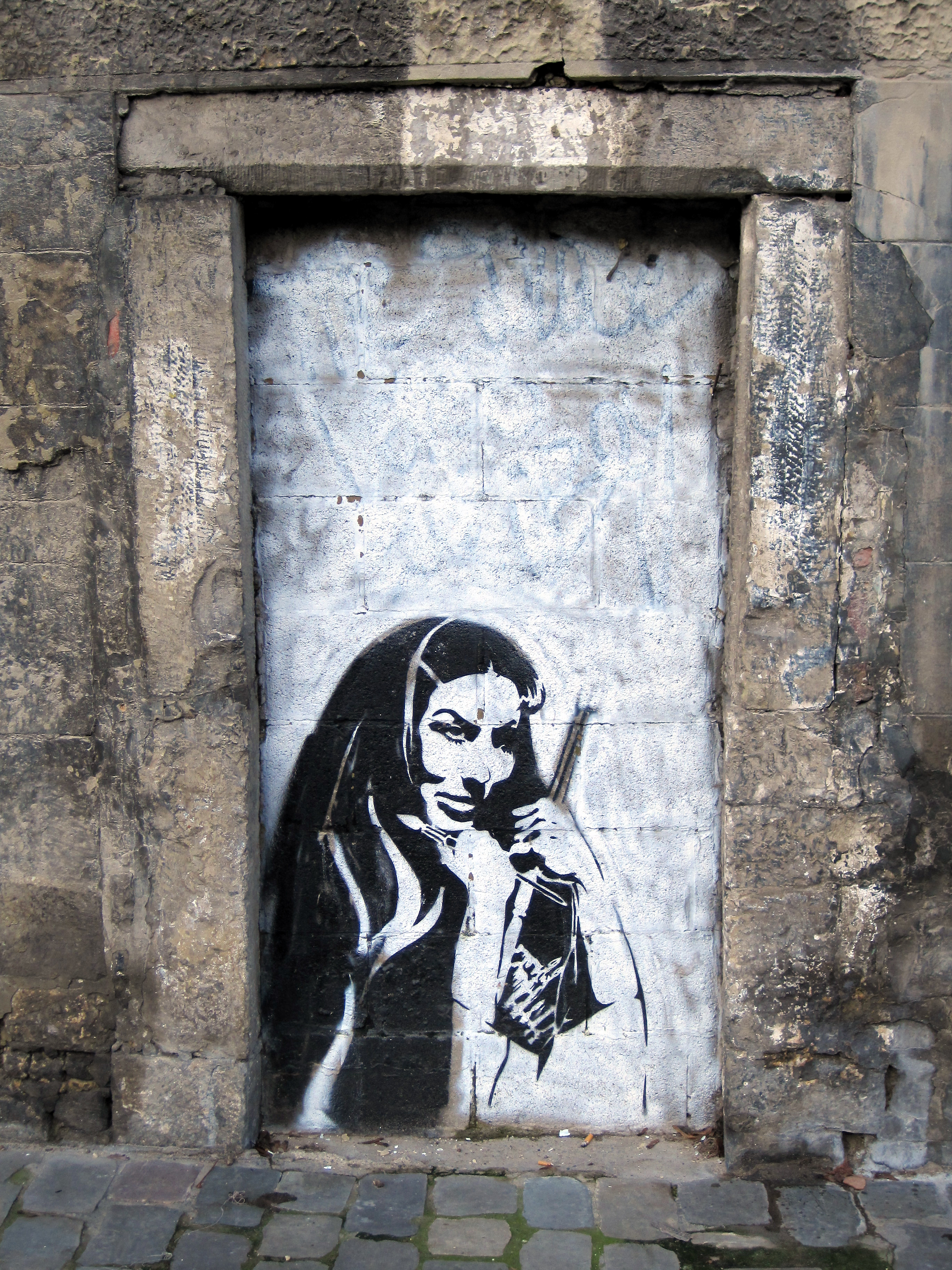 Namur (Belgium) - Graffiti stencil on a walled door.